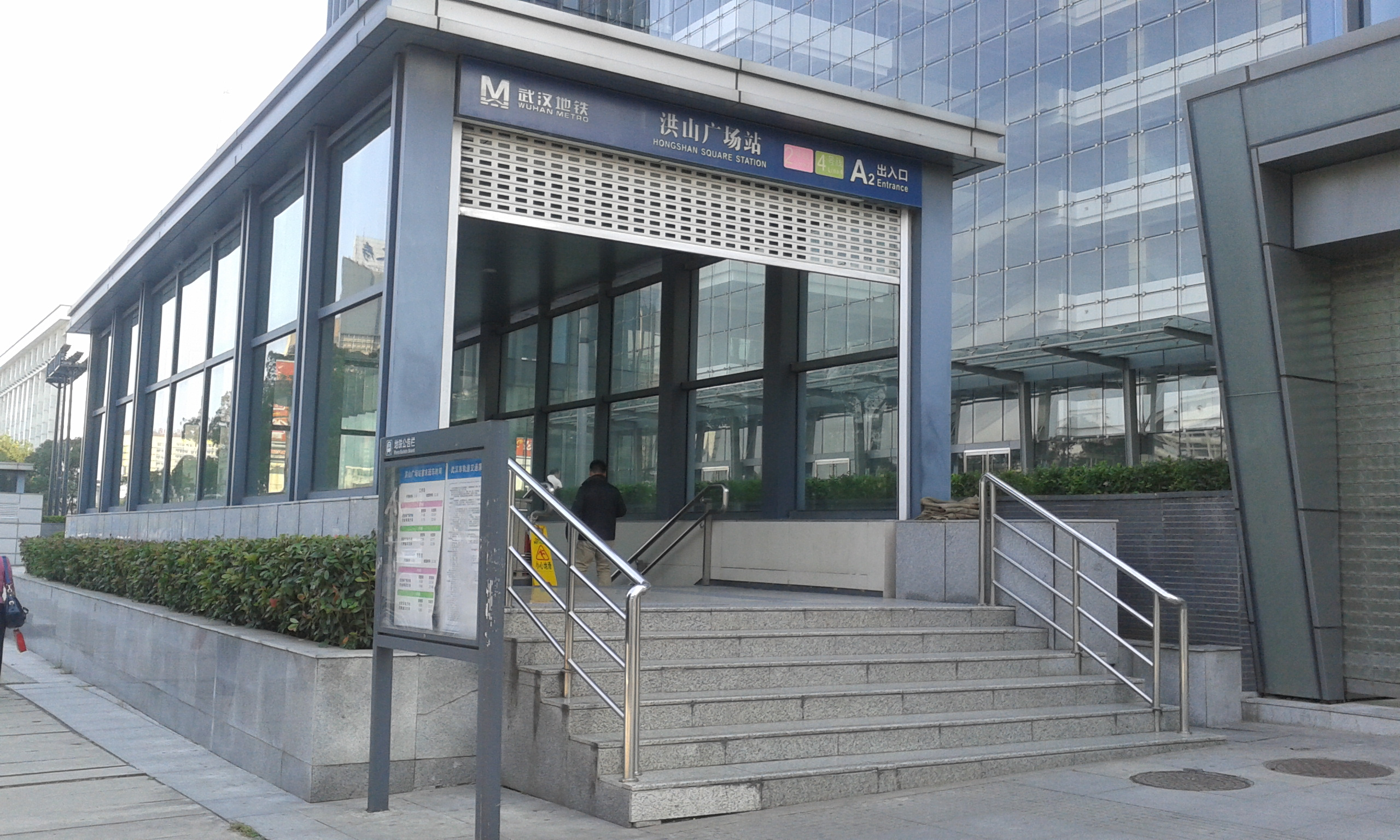 Entrance A2 of Hongshan Square Station, Wuhan Metro